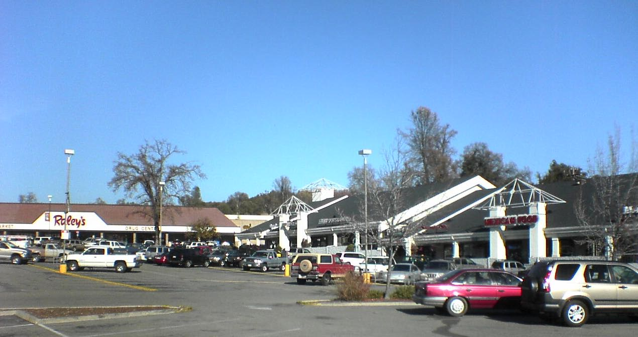 Photo taken 12/13/05 of shopping center in Oakhurst, California. Photographer releases all rights worldwide.